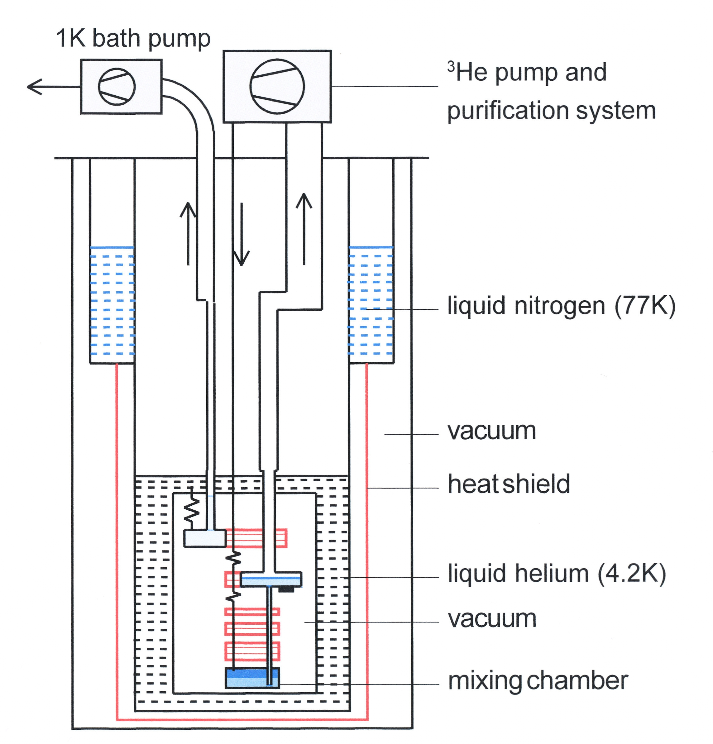 Schematic daiagram of a dilution refrigerator